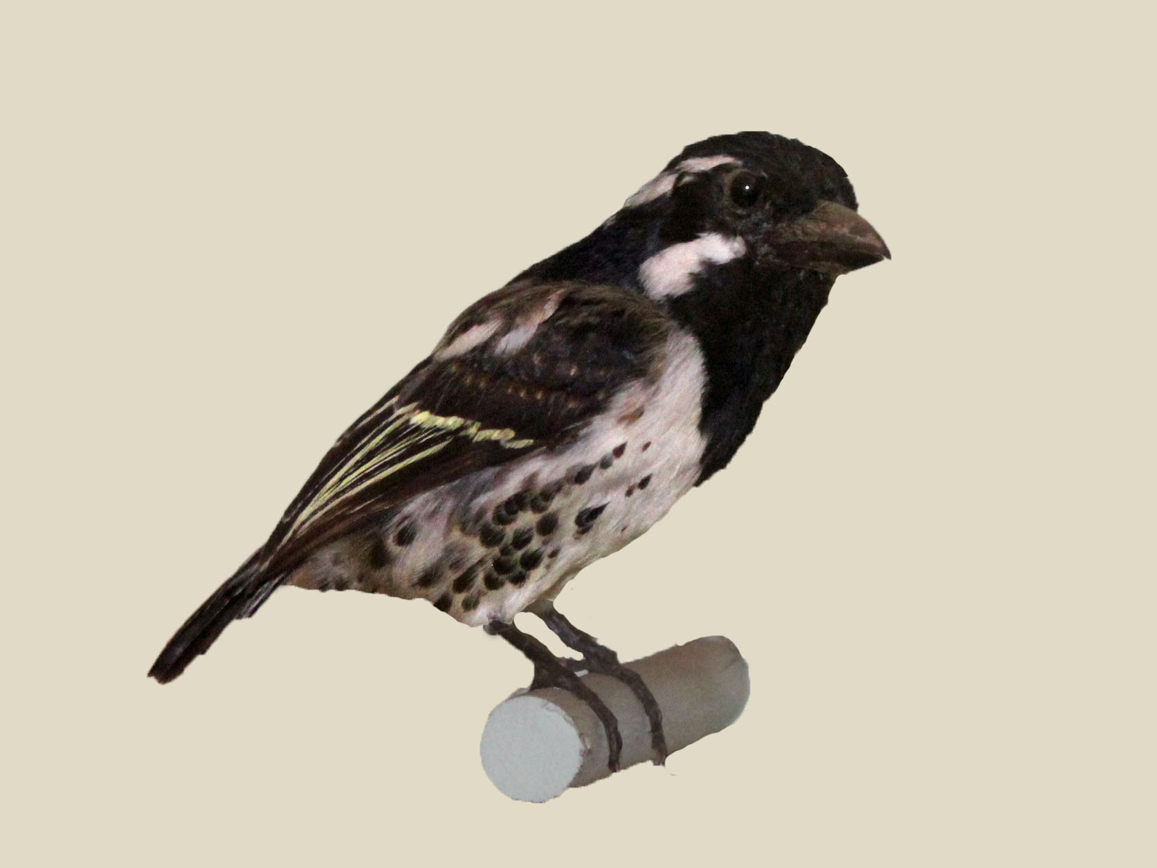 Spot-flanked Barbet (Tricholaema lacrymosa). Photograph of a specimen at Nairobi National Museum in Nairobi, Kenya.